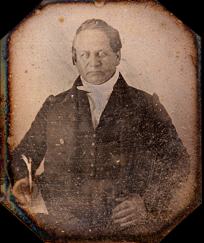 Photographic portrait of Alexander Lucius Twilight (1795–1857), American educator, politician, and minister. Twilight was the first African-American to earn a college degree from an American university (Middlebury College, 1823), as well as the first African-American elected to serve in a state legislature. He was elected to the Vermont House of Representatives in 1836. Twilight was also a minister and secondary school principal, building Athenian Hall at the Orleans County Grammar Schools.